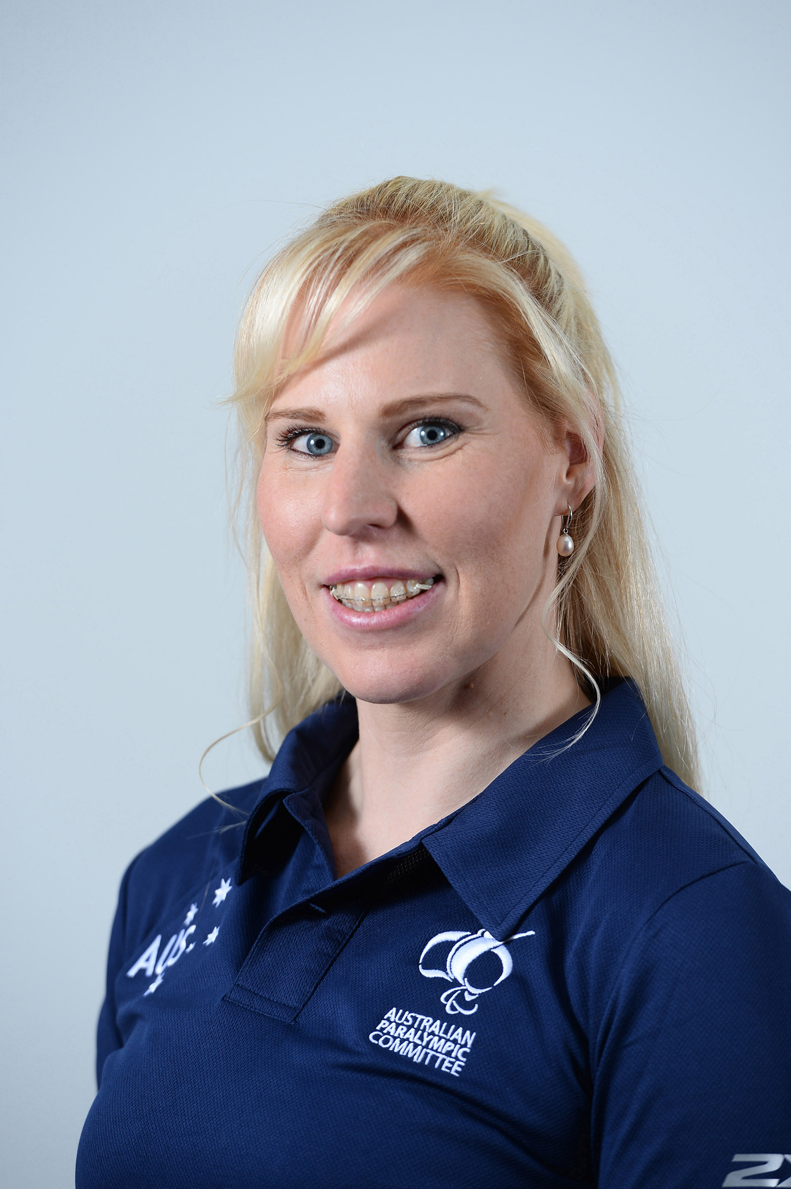 Portrait photograph of Kathryn Ross taken at team processing session for shadow members of 2016 Australian Paralympic team